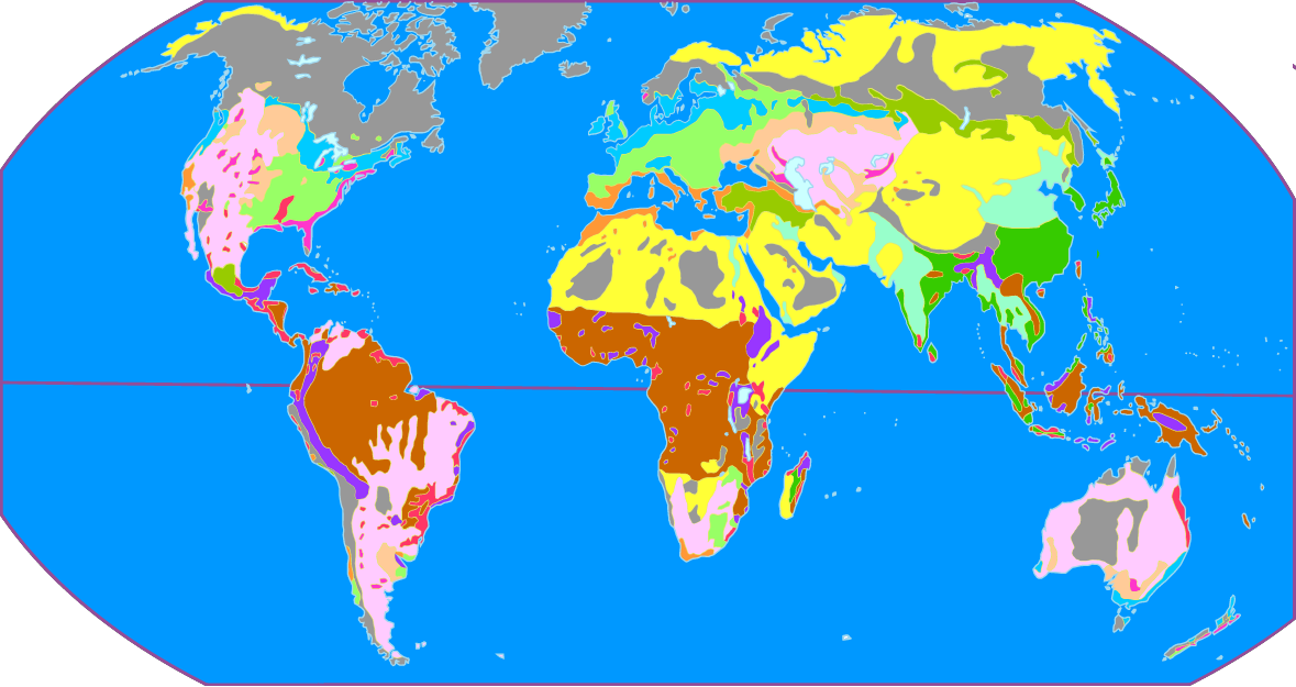 This is the map of agricultural area which was proposed by Derwent Stainthorpe Whittlesey, an American geographer.